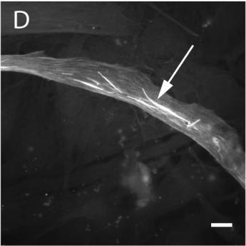 Giant rods in diferenciated myotubes as a result of transfection of ACTA1 mutated isoform linked with nemaline myopathy.